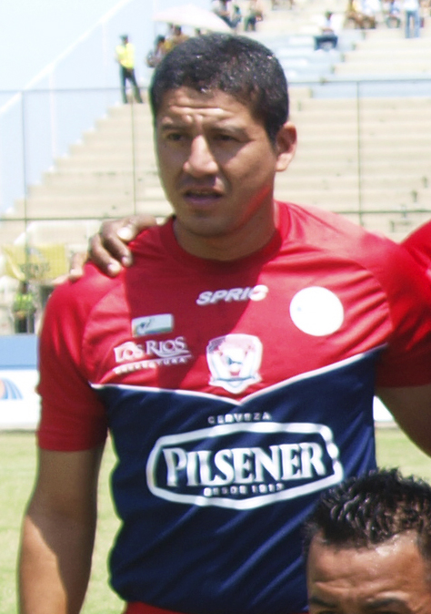 Jairon Zamora jugando en el Venecia de Babahoyo en 2012